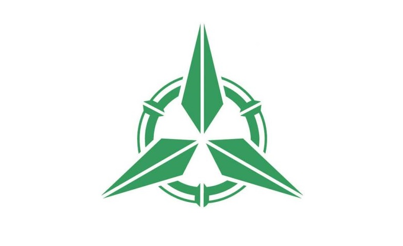 Flag of Takehara Hiroshima